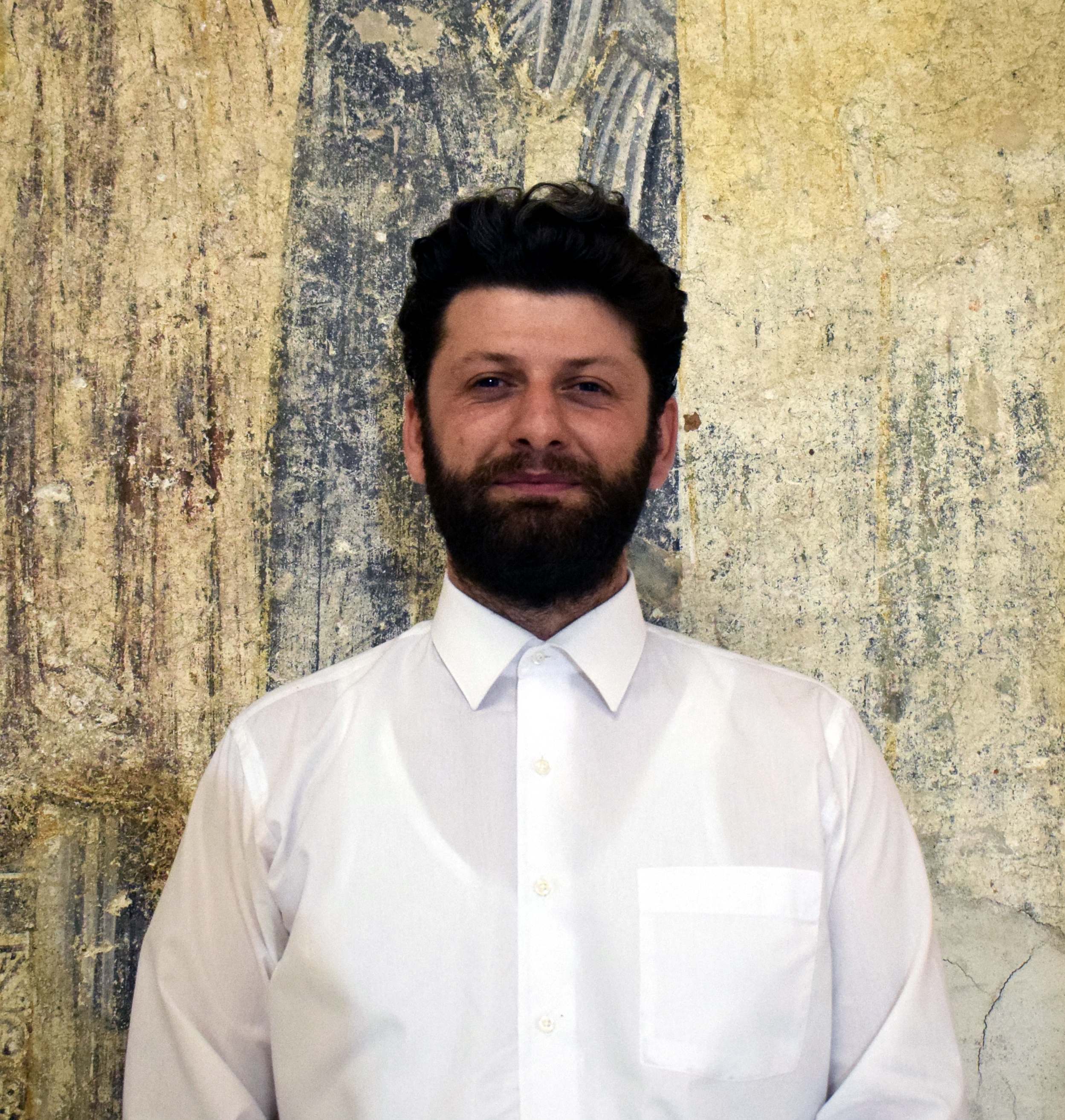 Drilon Cocaj at Ohrid Summer Festival